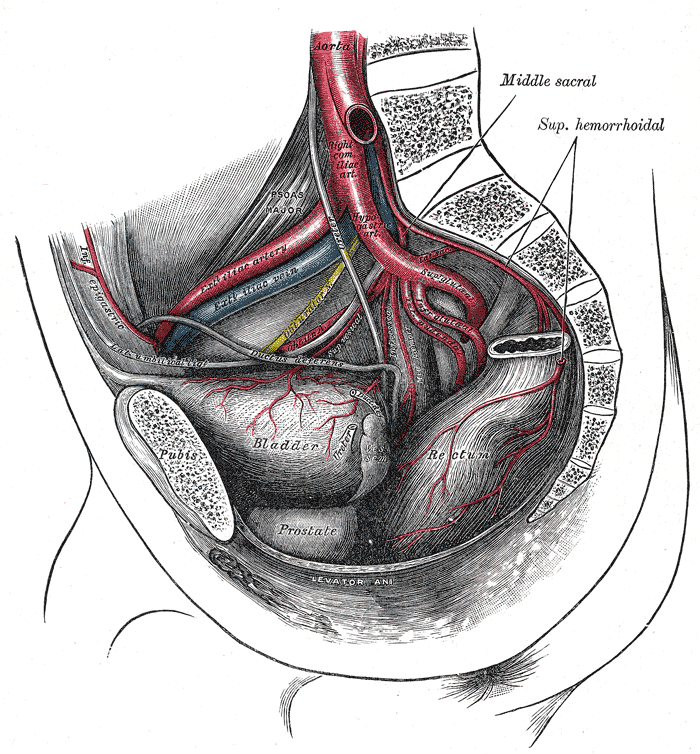 The arteries of the pelvis. This image is of a male abdomen.